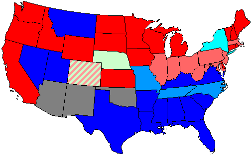 Summary of party control of U.S. house seats in the 56th United States Congress following election. Stripes indicate a tie between two or more parties. Legend: 80.1-100% Democratic seat majority 60.1-80% Democratic seat majority 60% or less Democratic seat plurality 60% or less Republican seat plurality 60.1-80% Republican seat majority 80.1-100% Republican seat majority 60% or less Populist seat plurality 60.1-80% Populist seat majority 80.1-100% Populist seat majority